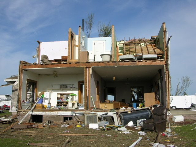 Damage from the EF2 Aurora, Nebraska tornado